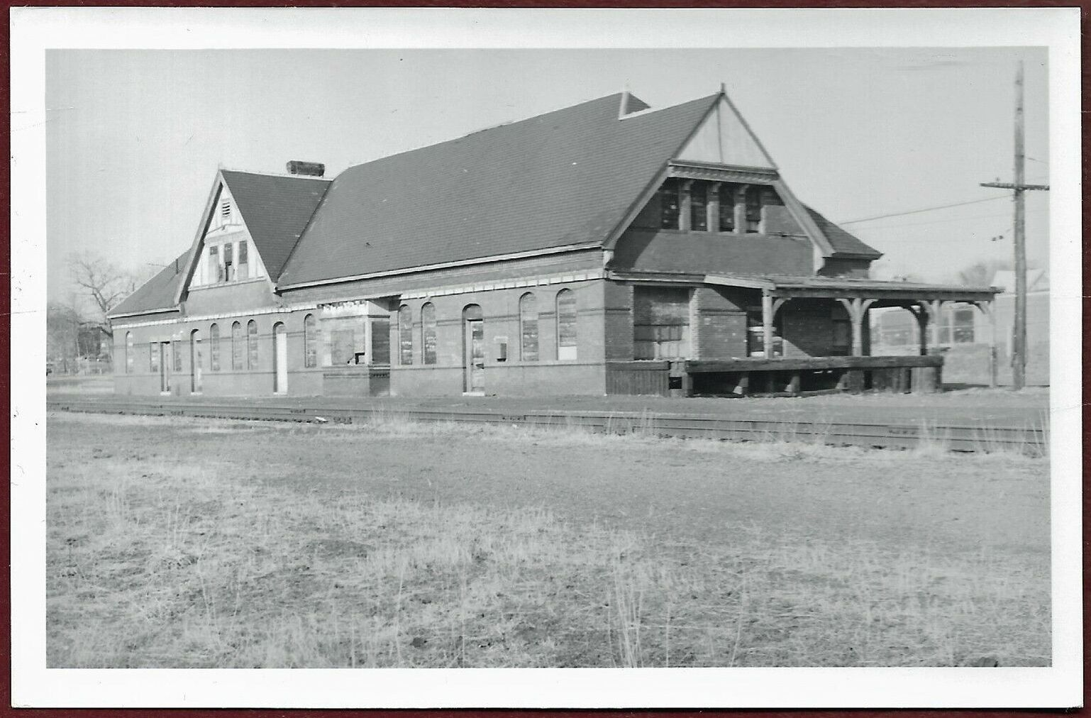 Middleborough station in 1972 on a postcard published in the 1970s or 1980s